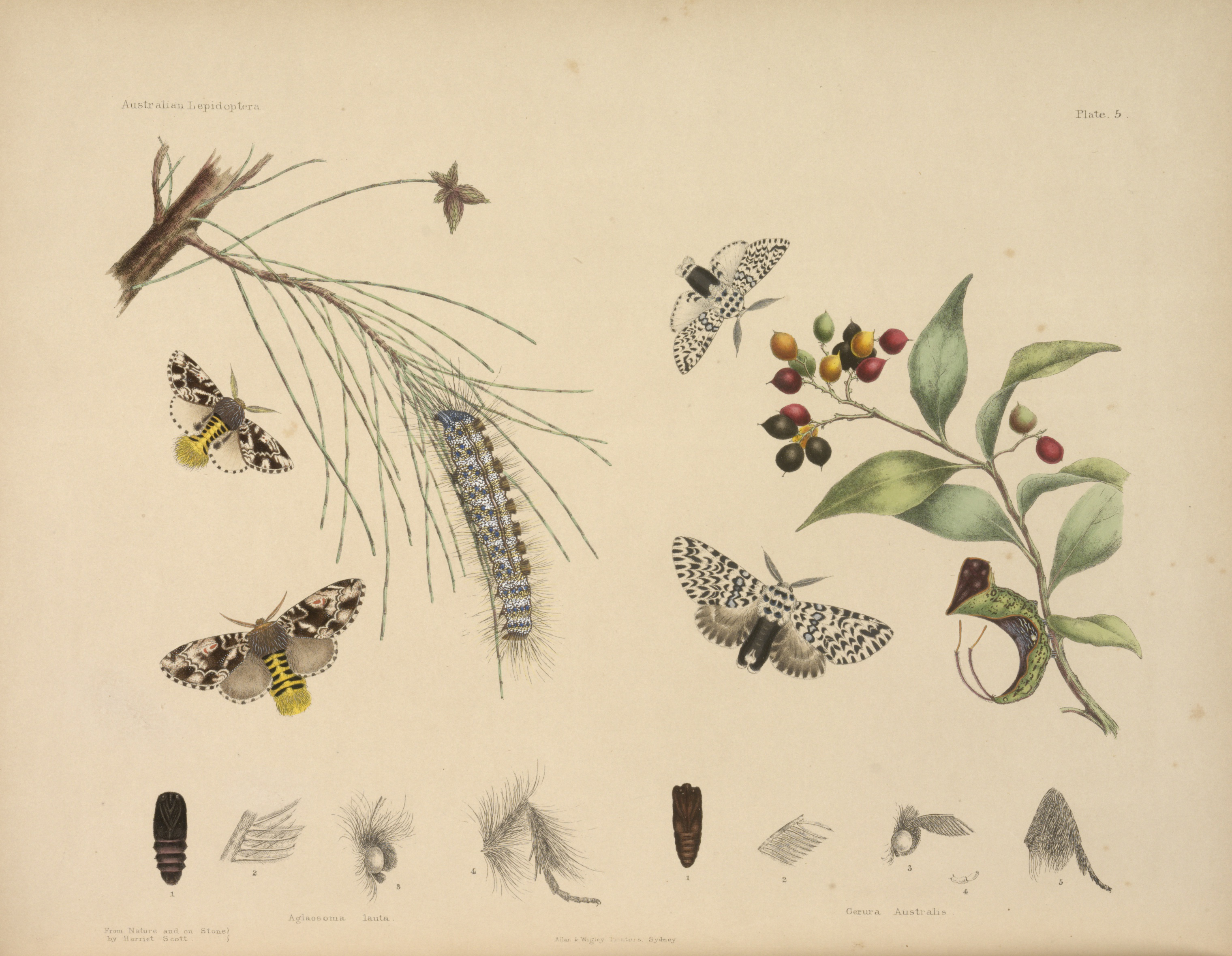 Hand coloured lithographic plate depicting Aglaosoma lauta and Cerura Australis